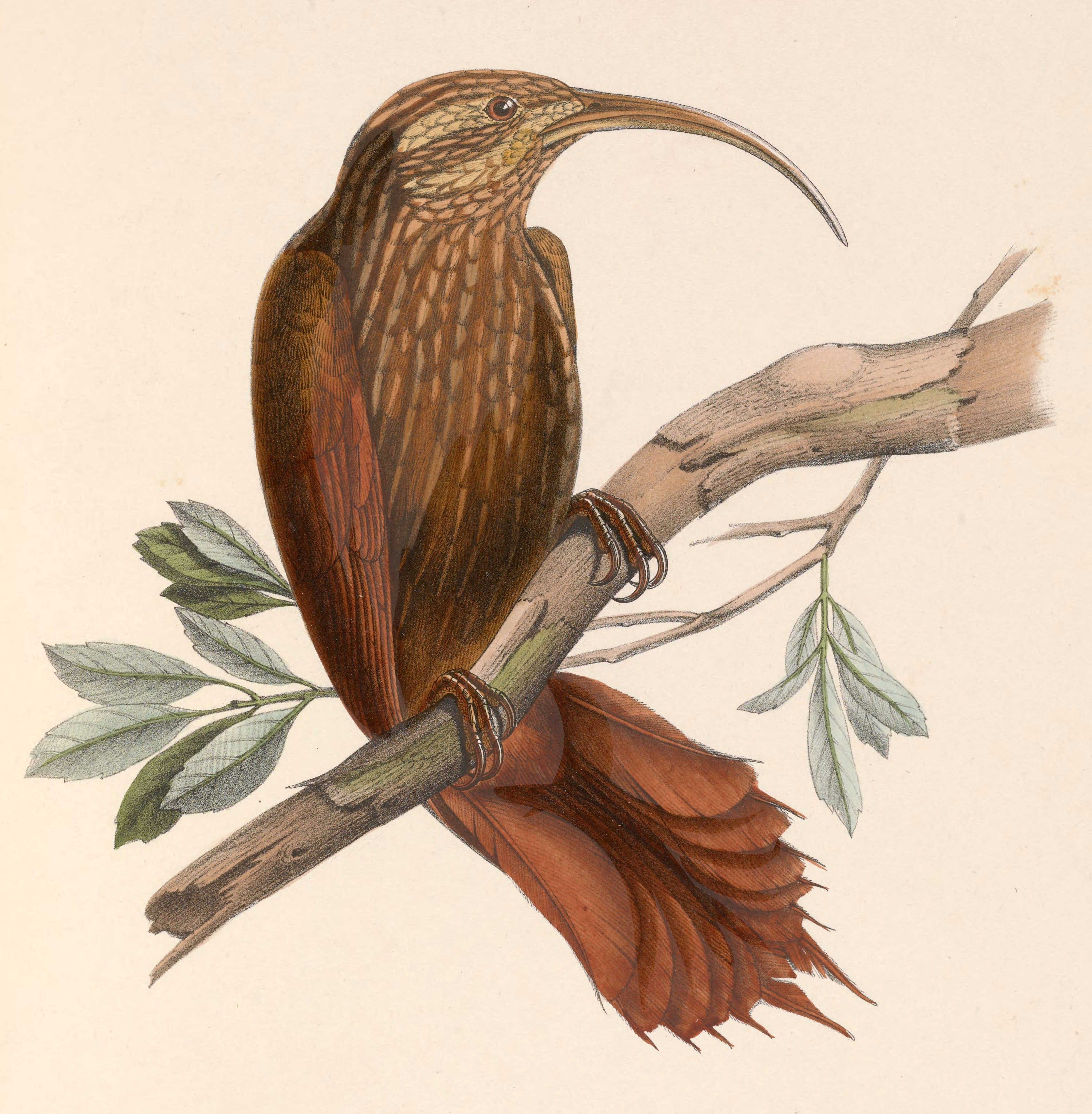 Xyphorhynchus pucherani = Drymotoxeres pucheranii (Greater Scythebill)